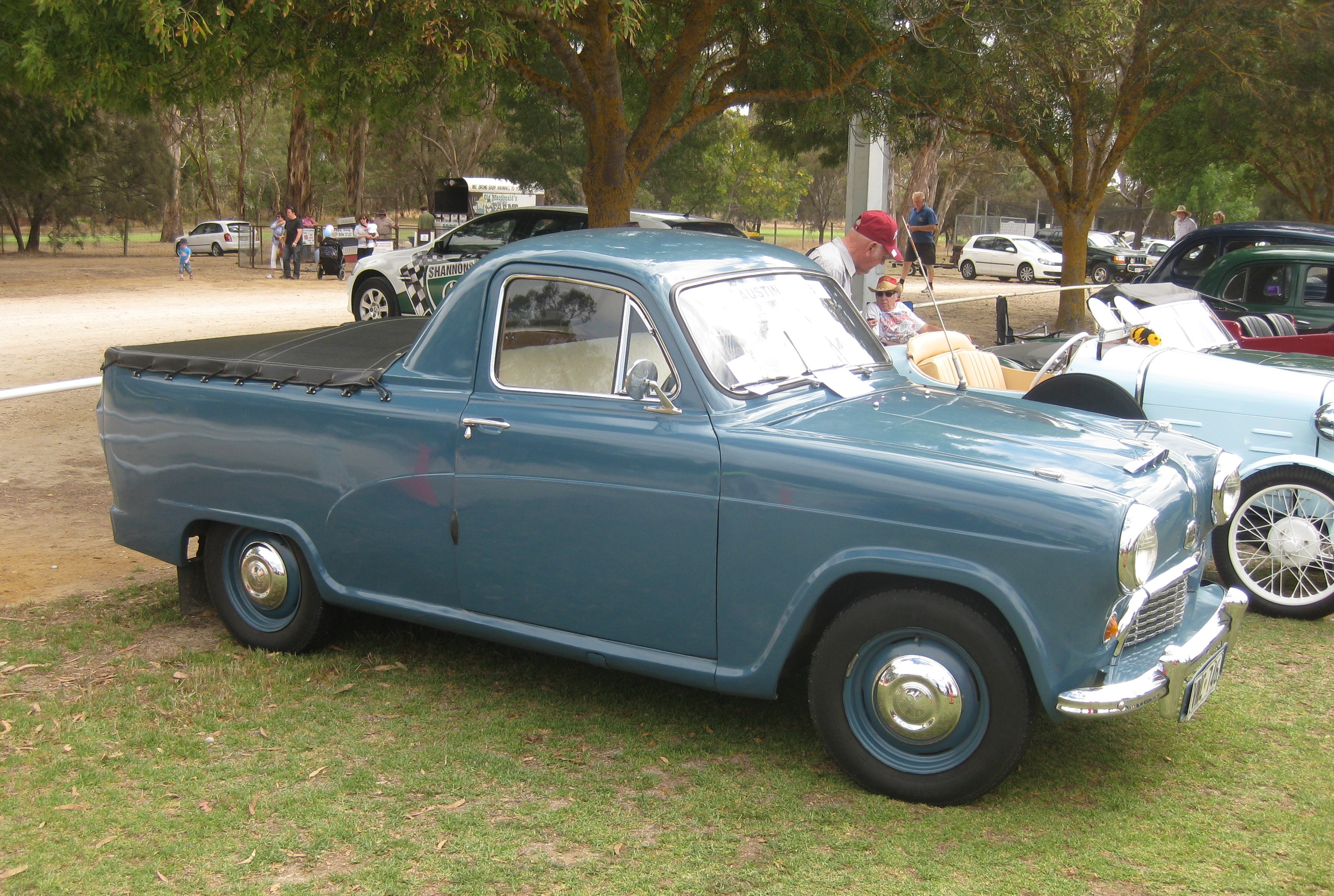 Austin A55 Coupe Utility. The Pressed Metal Corporation of Sydney, Australia designed and assembled this coupe utility version of the Austin A55 Cambridge.